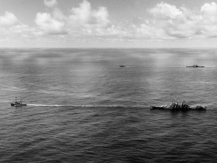 The U.S. Navy heavy cruiser USS Canberra (CA-70) under tow toward Ulithi Atoll after she was torpedoed while operating off Okinawa. The light cruiser USS Houston (CL-81), also torpedoed and under tow, is in the right background. Canberra was hit amidships on 13 October 1944. Houston was torpedoed twice, amidships on 14 October and aft on 16 October. The tugs may be USS Munsee (ATF-107), which towed Canberra, and USS Pawnee (ATF-74).